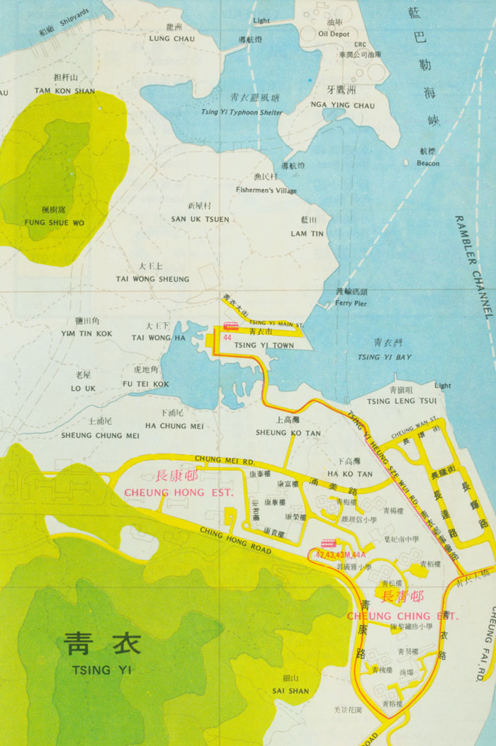 Tsing Yi map in 1984